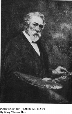 Mary Theresa Hart's portrait of her father James McDougal Hart, published in April 1901 issue of Brush and Pencil